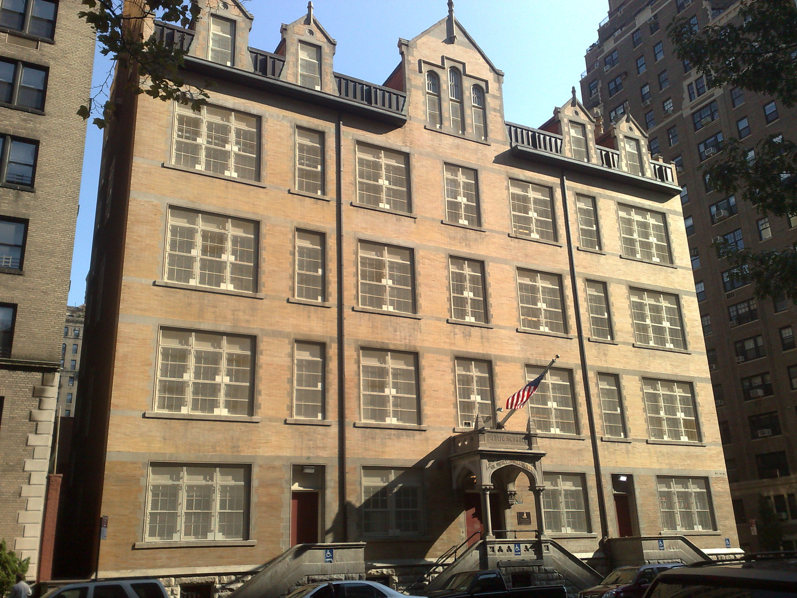 This photo is of Wikis Take Manhattan goal code A8, Public School 9. Looking south across West End Avenue at western facade of The Micky Mantle School.